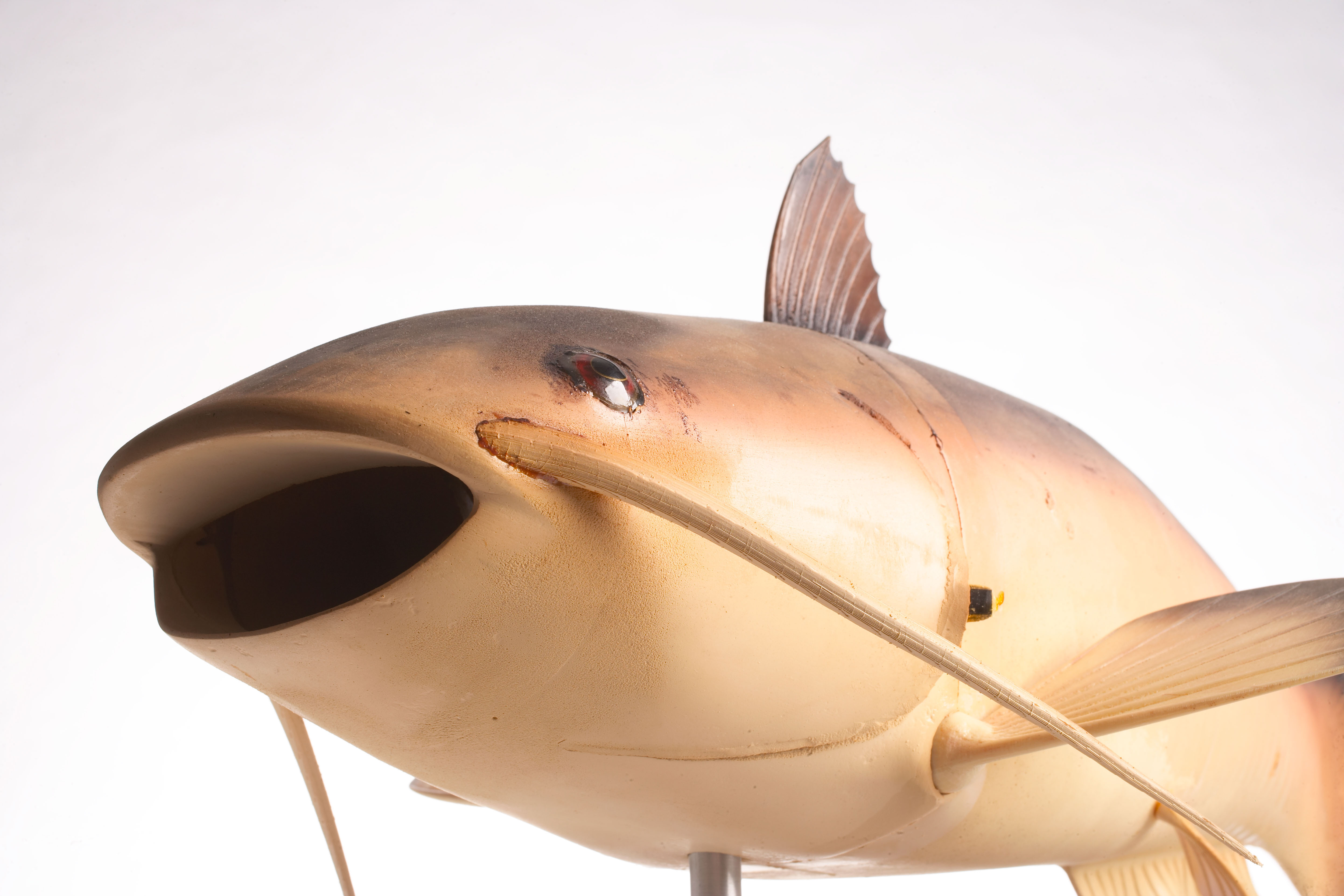 CIA's Office of Advanced Technologies and Programs developed the Unmanned Underwater Vehicle (UUV) fish to study aquatic robot technology. The UUV fish contains a pressure hull, ballast system, and communications system in the body and a propulsion system in the tail. It is controlled by a wireless line-of-sight radio handset.